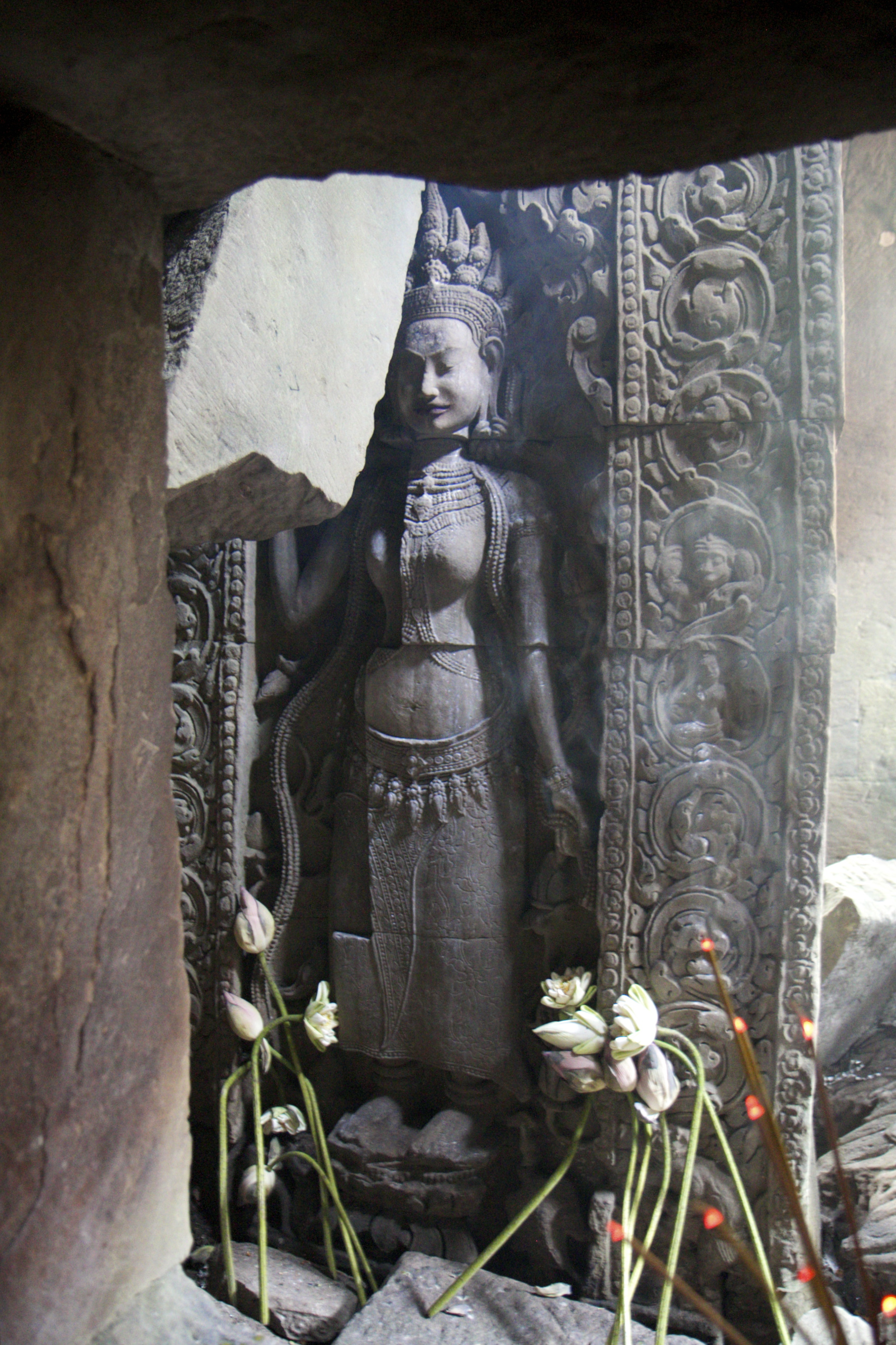 Jayadevi, one of Jayavarman VII's two sister-wives, hidden deep in the collapsing Preah Khan